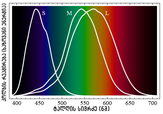 The Stockman and Sharpe (2000) 2° cone fundamentals